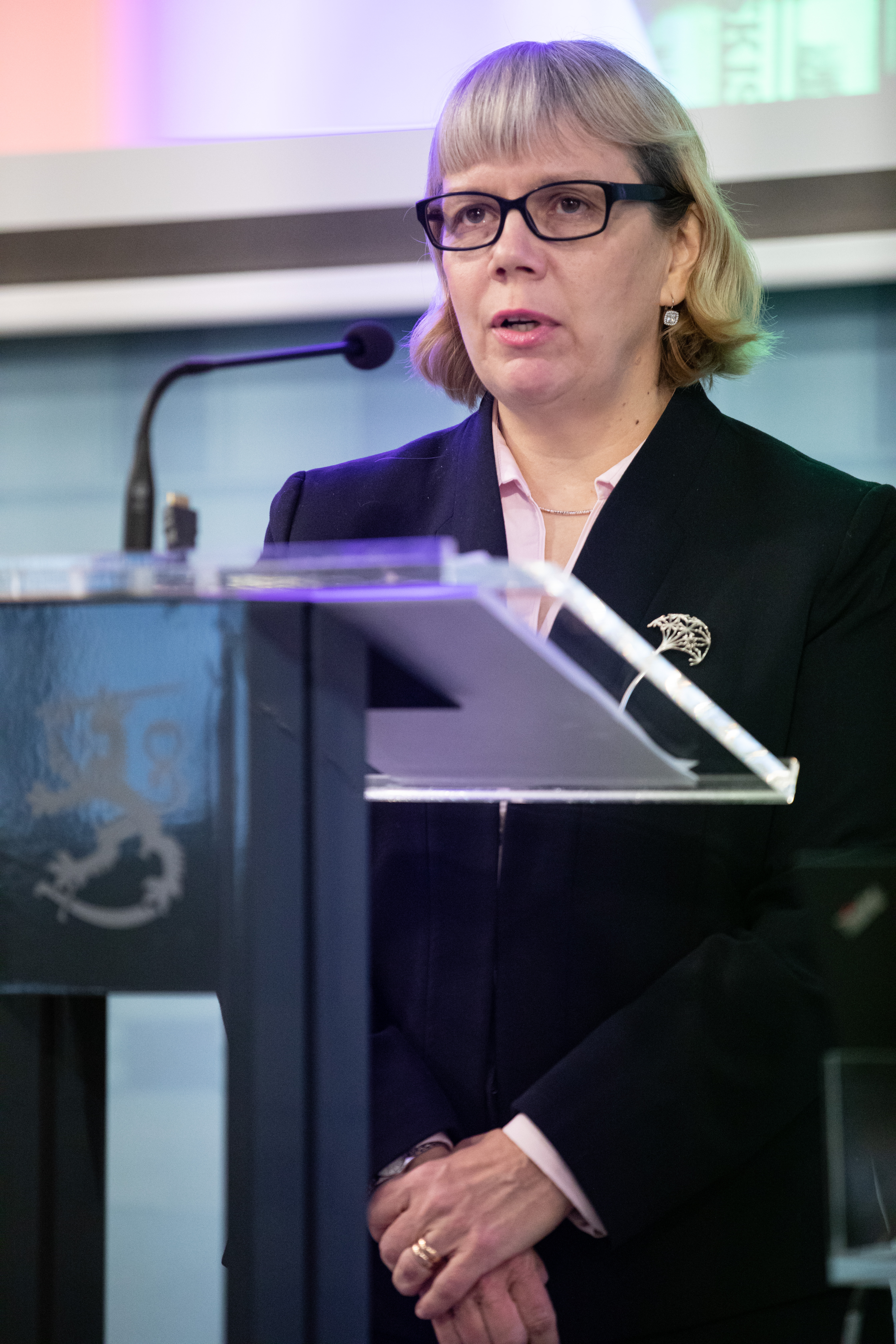 Toimittaja-kirjailija Elina Grundström on selvittänyt liikenne- ja viestintäministeri Timo Harakan pyynnöstä journalismin tukea koronakriisin aiheuttamassa poikkeustilanteessa. Selvityshenkilö Grundström luovutti raporttinsa ministeri Harakalle tiedotustilaisuudessa tiistaina 28.4.2020.